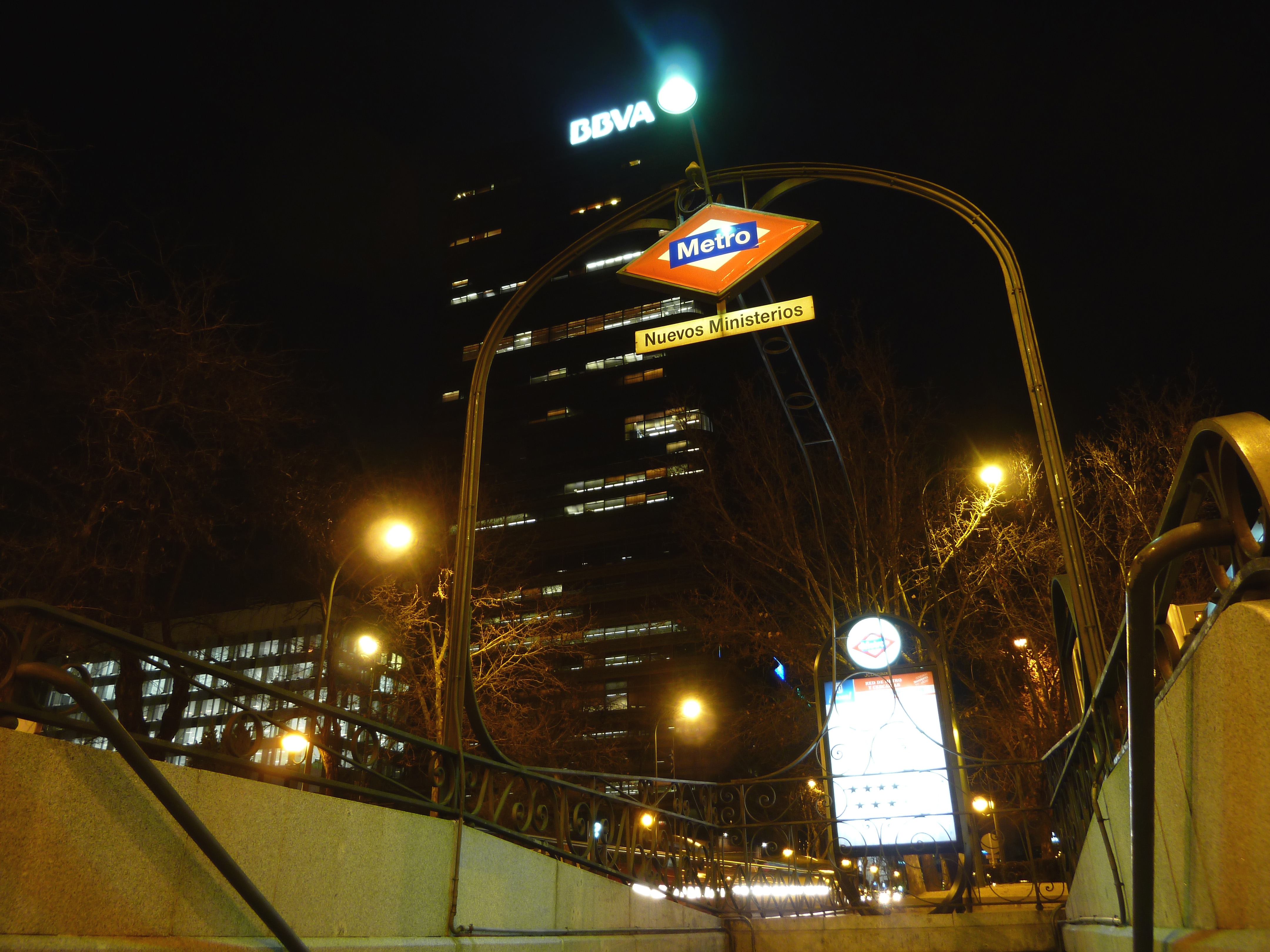 Entrance of Nuevos Ministerios metro station in Madrid (Spain), at 81 Paseo de la Castellana (avenue) in Tetuán district. Background: BBVA Tower.